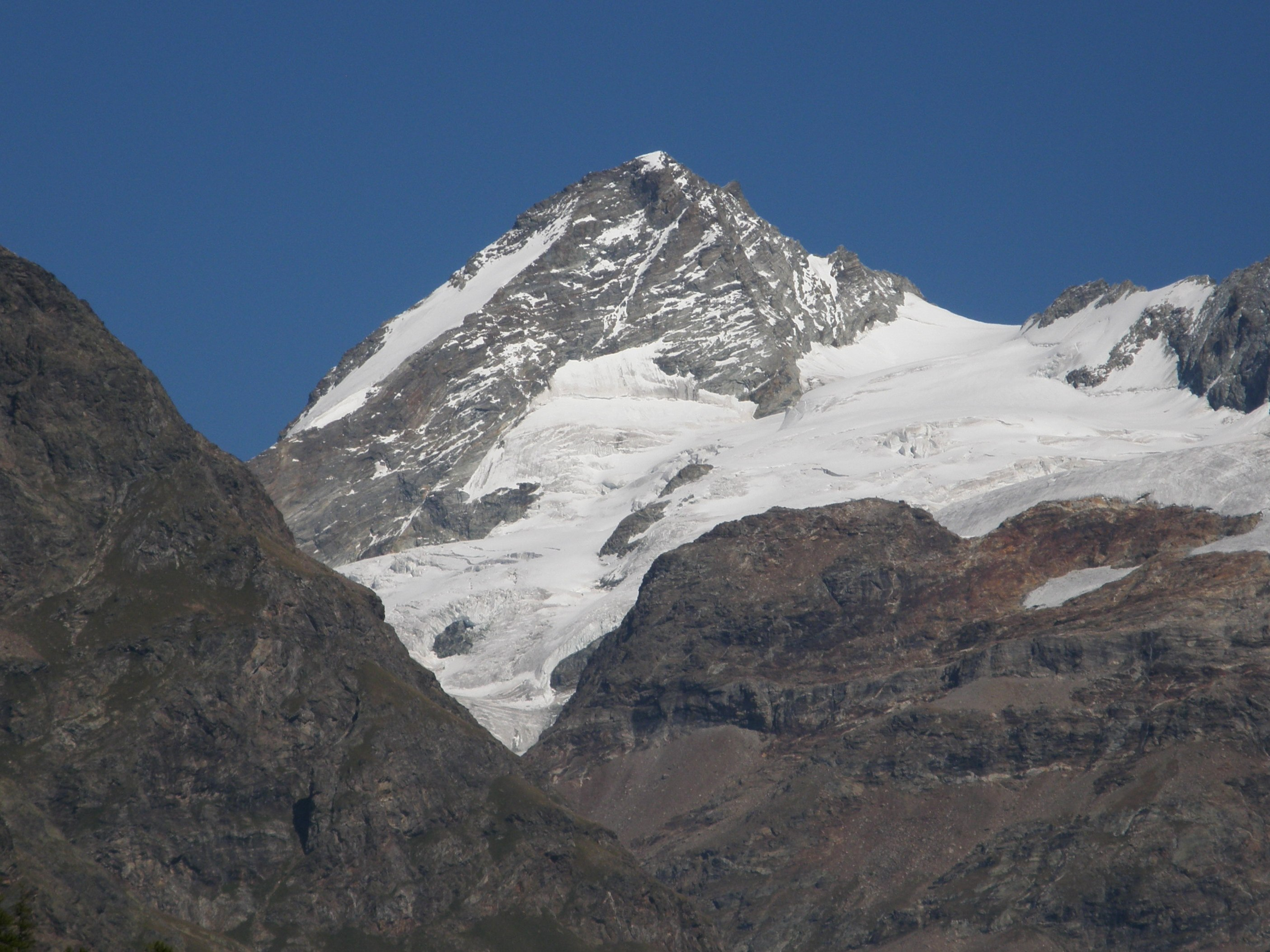 This is a photo of a monument which is part of cultural heritage of Italy.